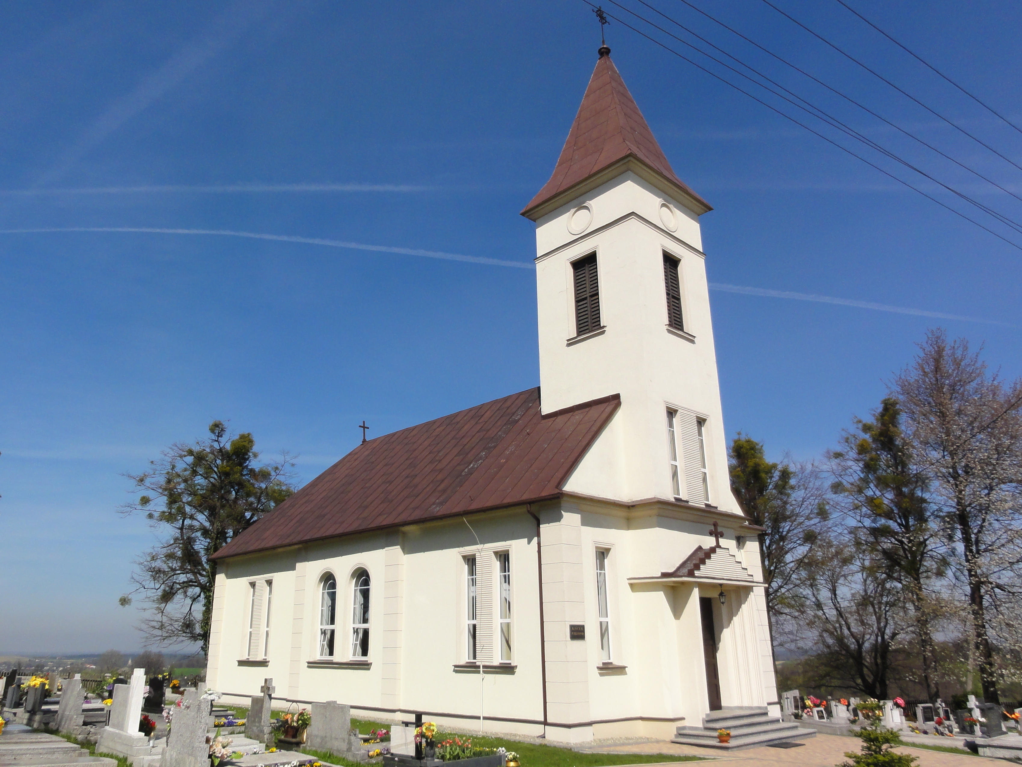 Lutheran church of Reconciliation in Wieszczęta (also serving Kowale)